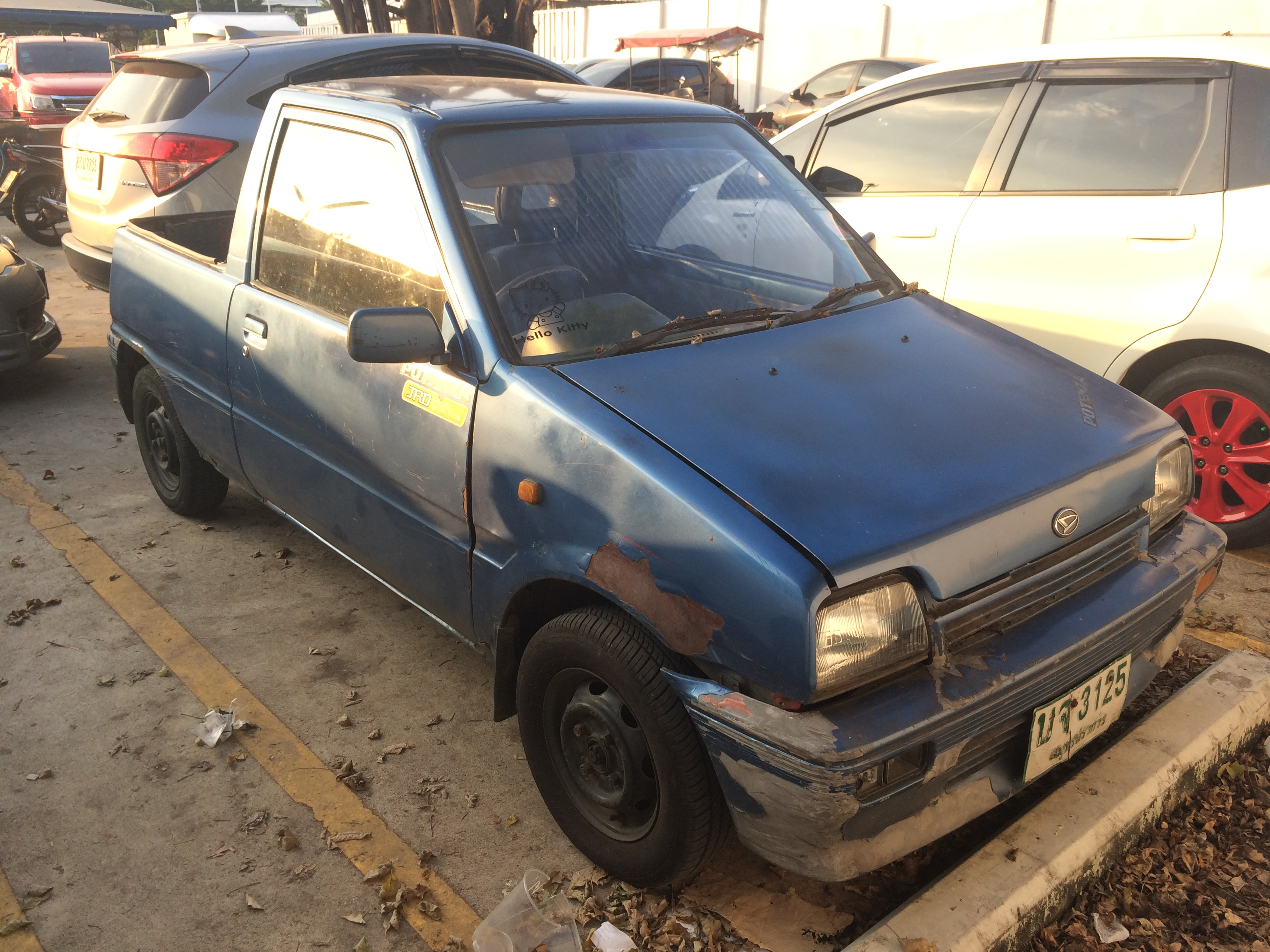 1989-1990 Daihatsu Mira (L70) pickups (07-12-2017) in Bangkok Thailand.